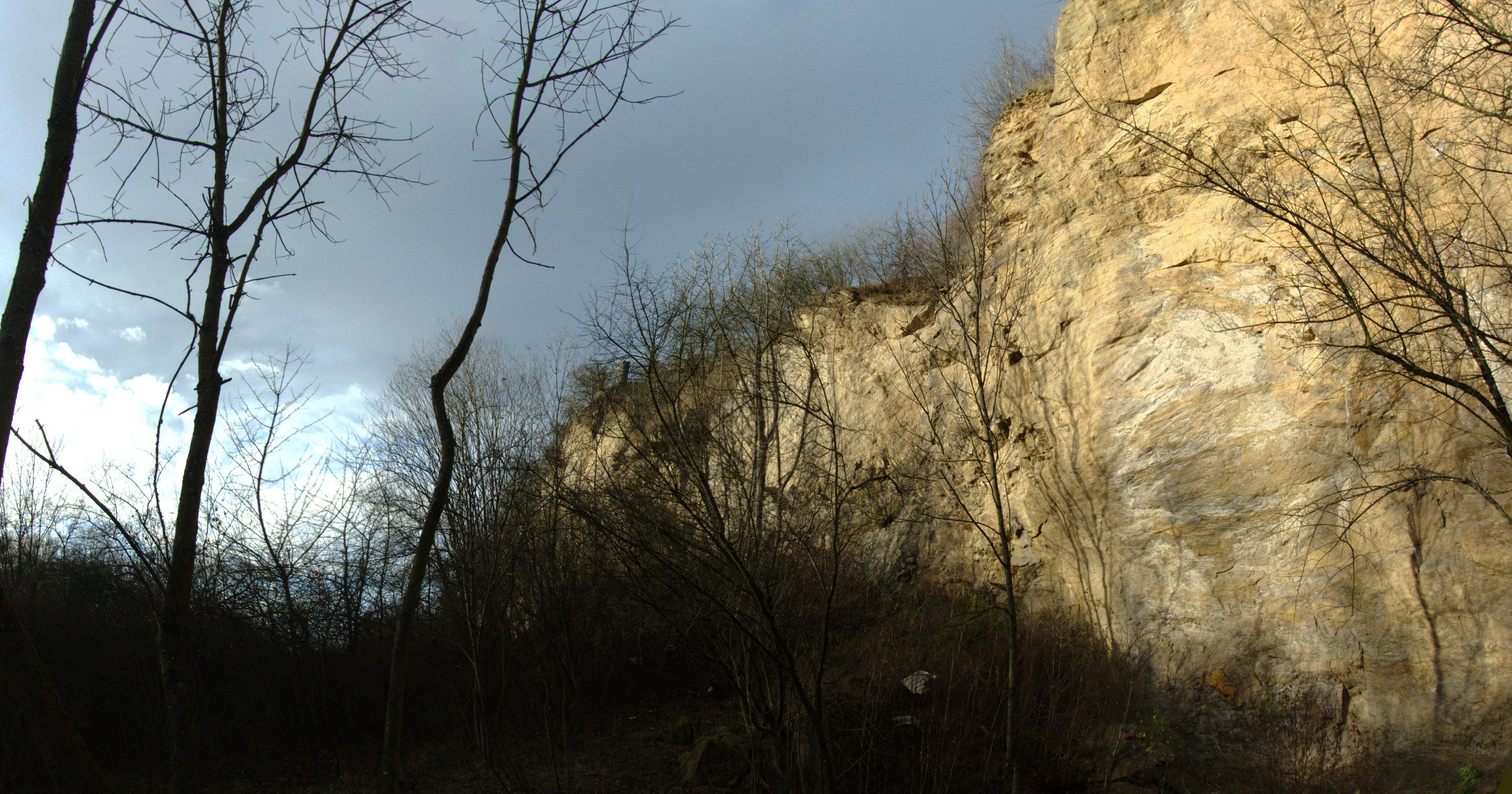 Lom u Radimi (Radim quarry) natural reserve in Central Bohemian Region, CZ This photograph was taken within the scope of the third year of the 'Czech Municipalities Photographs' grant.